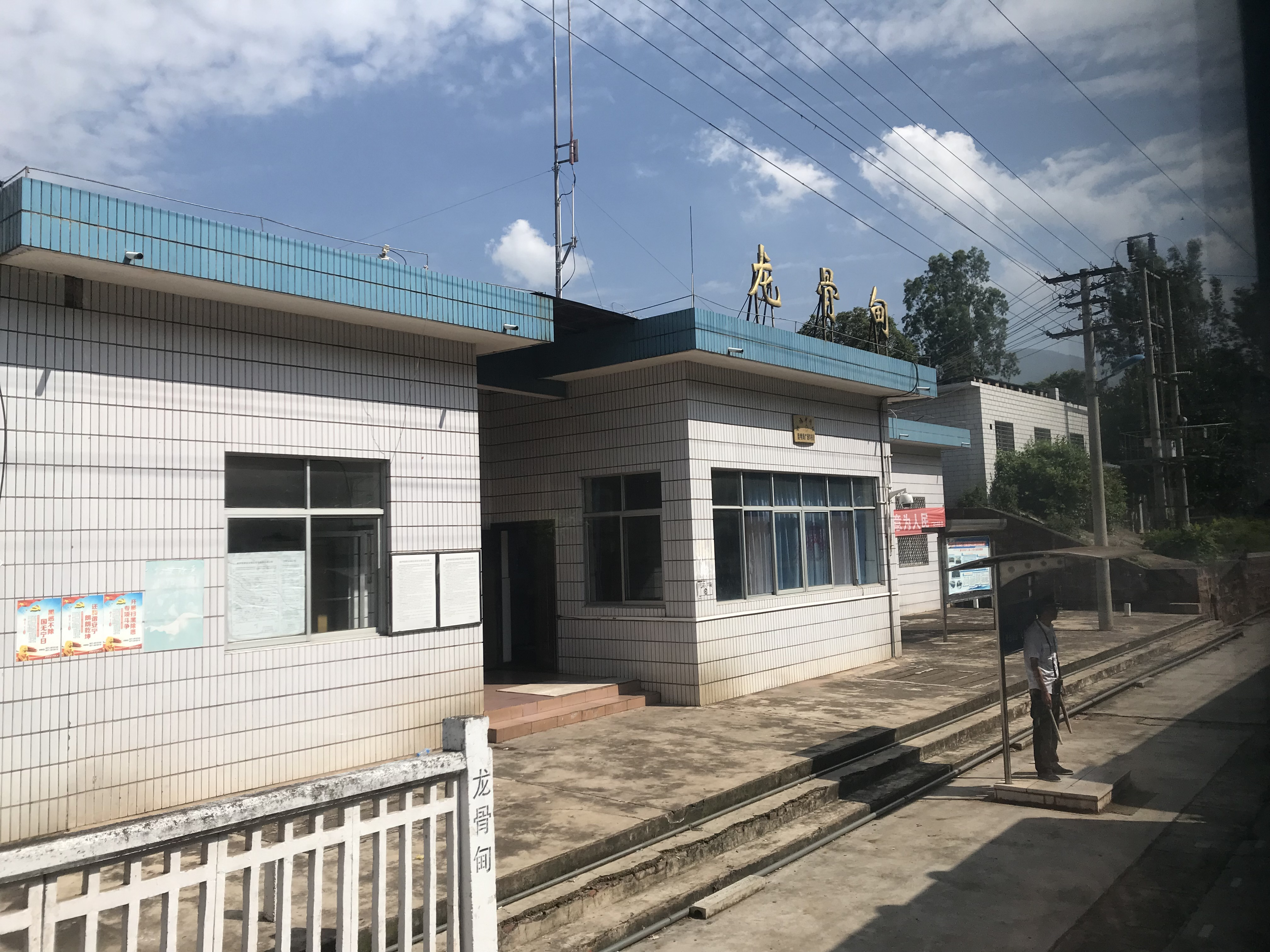 201908 Station Building of Longgudian